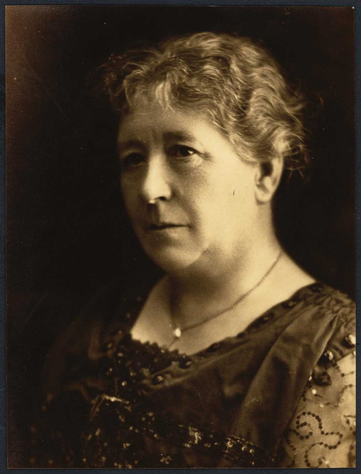 Archives New Zealand Reference: ACGO 8333 IA1 1350 / 15/11/21663